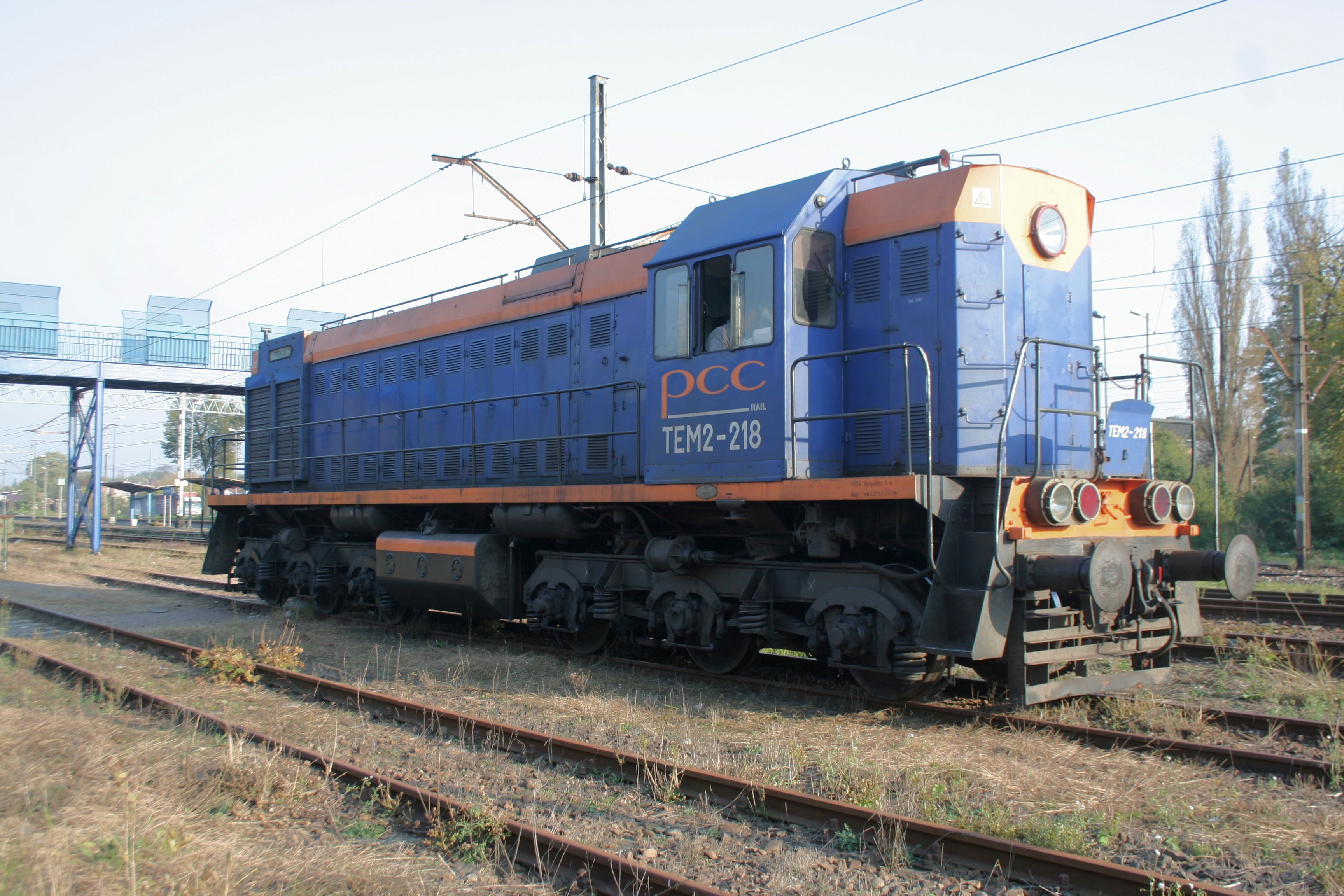 Shunter diesel locomotive TEM2-218 of private Polish railway operator PCC Rail Szczakowa at Skawina station.